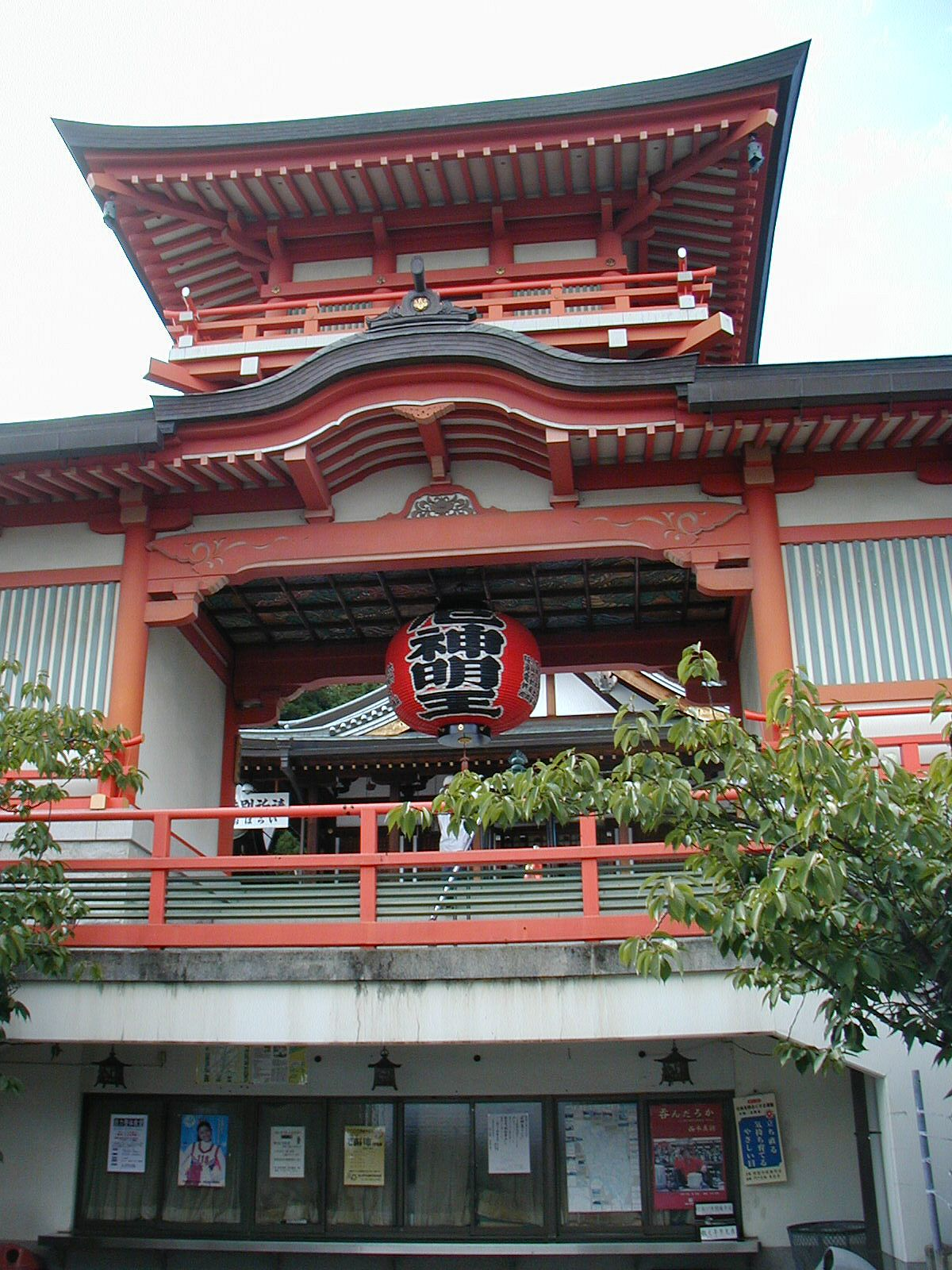 the gate of Mondoyakujin, a Japanese temple Toko-ji 門戸厄神東光寺中楼門